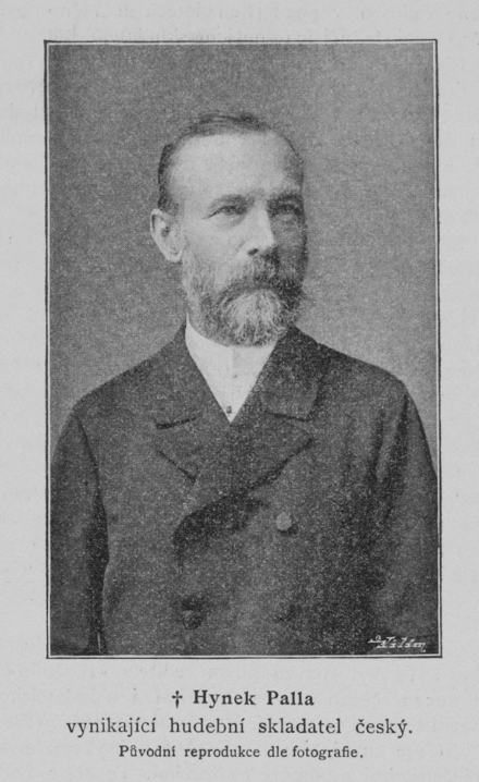 Portrait of Hynek Palla (1836-1896), Czech composer.